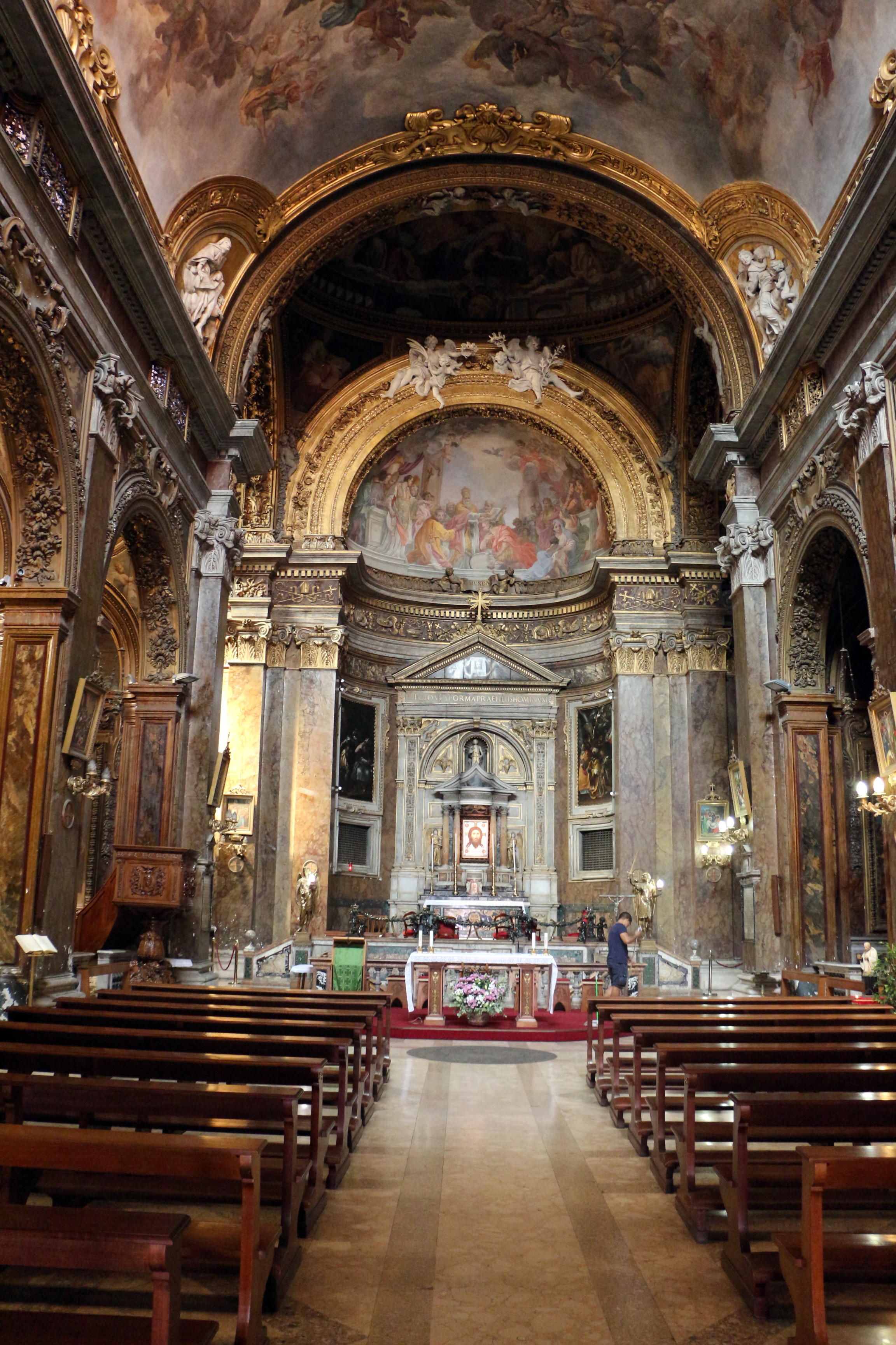 San Silvestro in Capite (Rome) - Inside